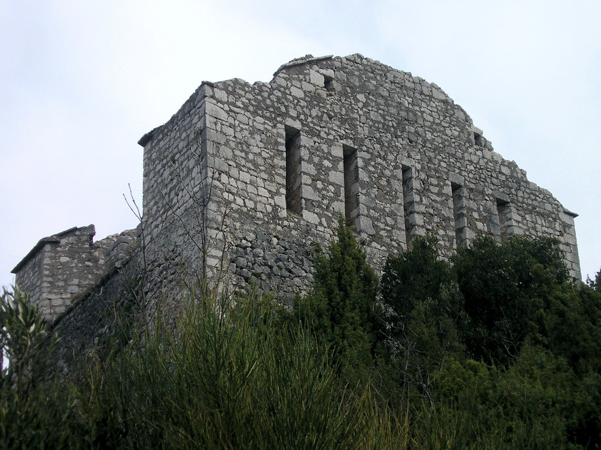 Old town Brštanik (Opuzen)